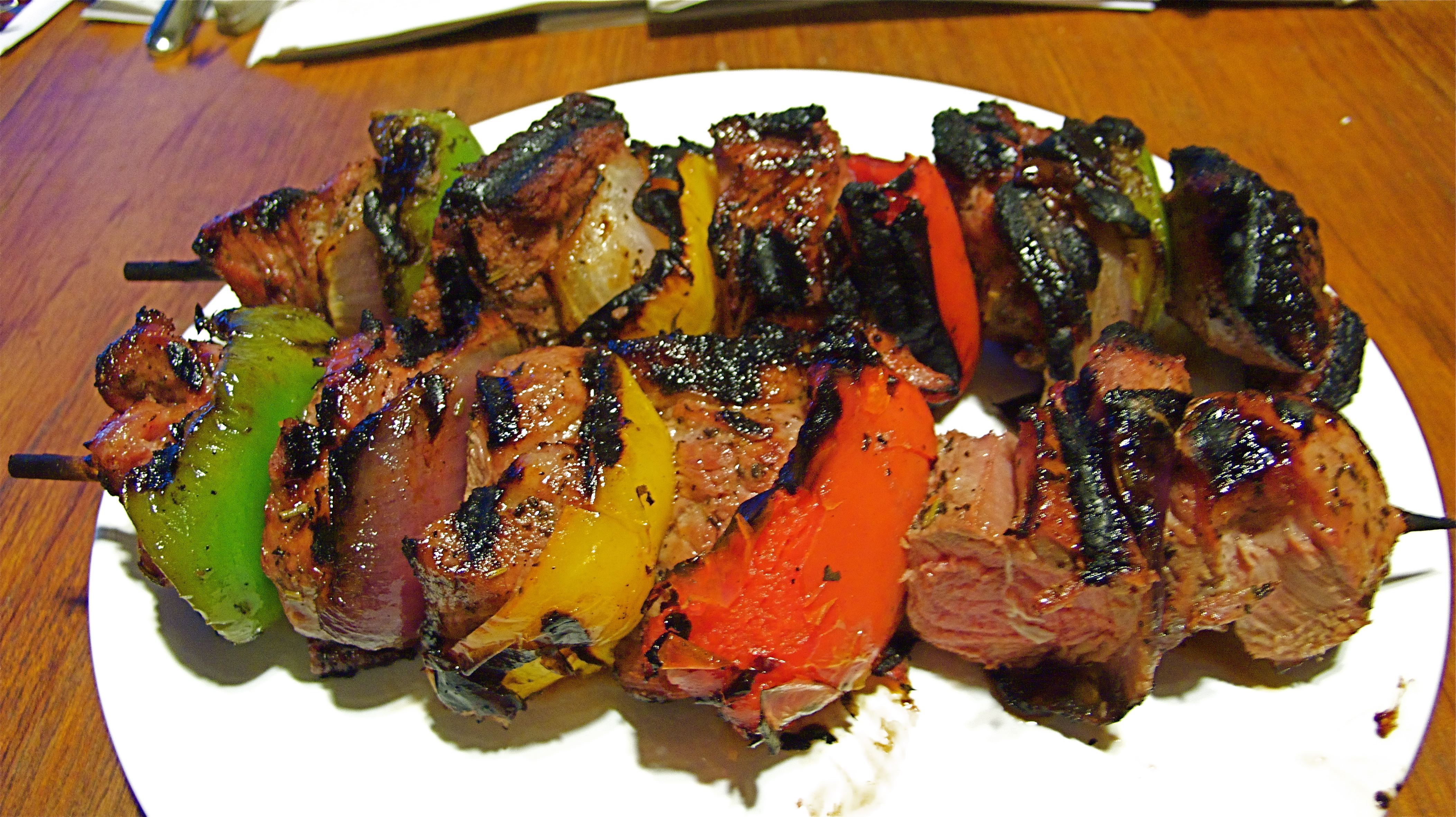 Lamb shish kebab, Pleasanton, California, 2008-050-6. Photograph made by Michael C. Berch User:MCB on 2008-05-06 and released under free license CC-BY 3.0.